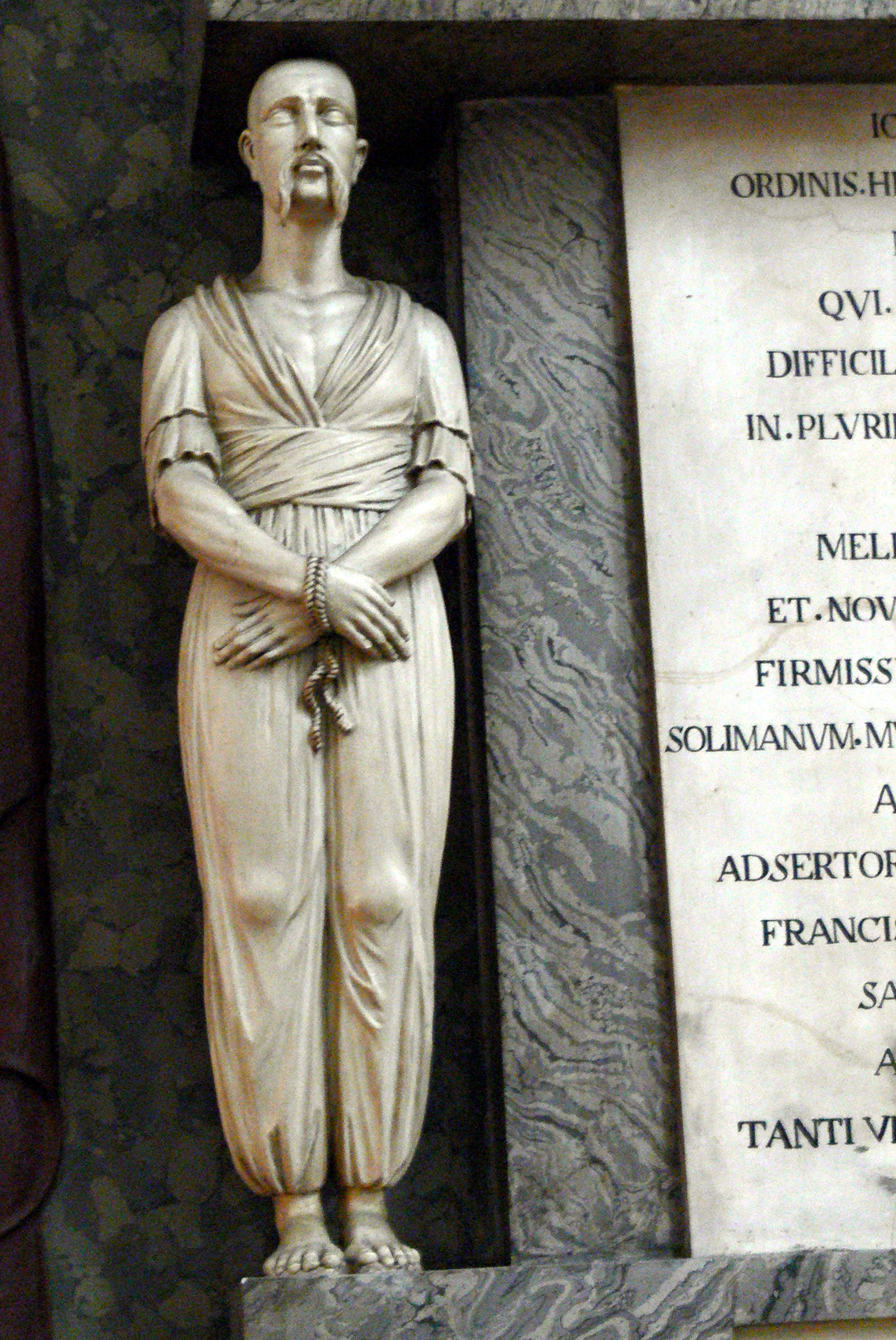 Vienna. Church of the Maltese Order: Monument for grand master Jean Parisot de la Valette ( 1806 ) - Statues of captive turks.